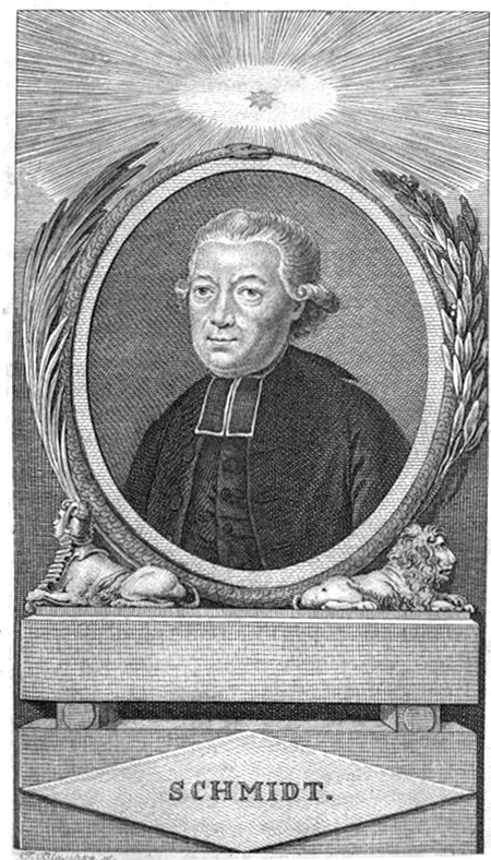 Michael Ignaz Schmidt (1736-1794), deutscher Priester und Historiker